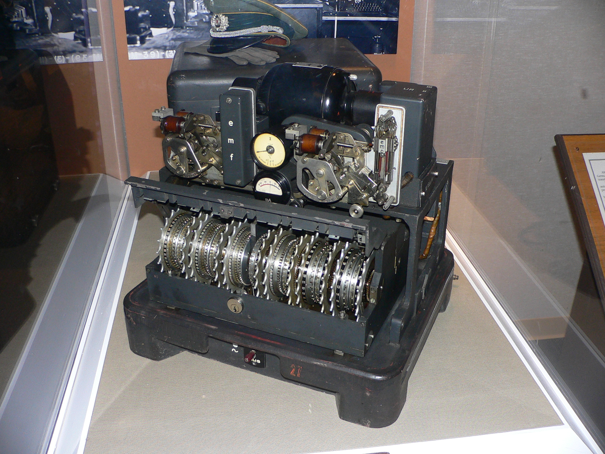 Pictures taken by myself at the US National Cryptologic Museum.